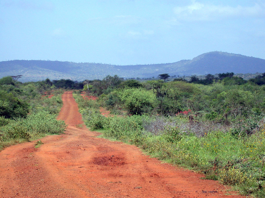 Dirt tracks disappear off into the back of beyond. Southern Ethiopia - hot and dry but not as barren as you might imagine.